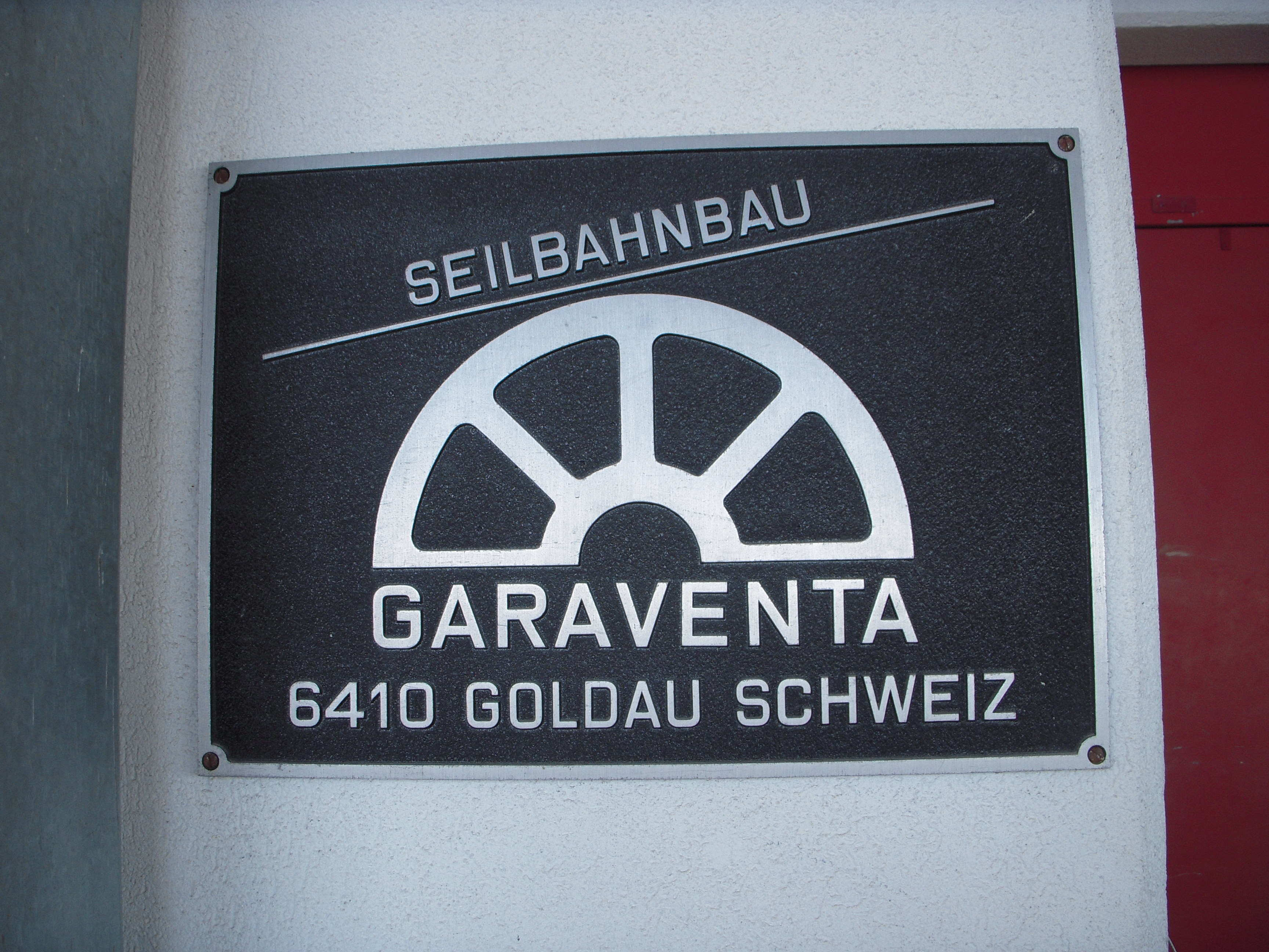 Sign from the company Garaventa at the Arosa - Weisshorn Cableway, Arosa, Graubünden, Switzerland. August 17, 2012.